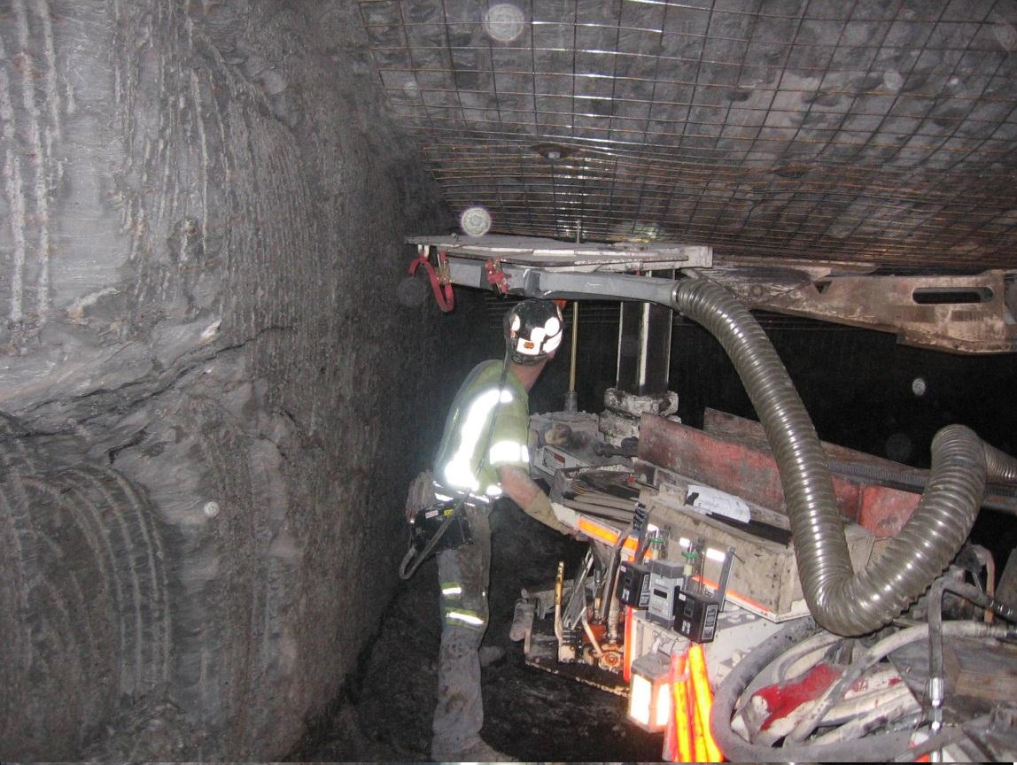 The report of experts of the National Institute for Occupational Safety and Health (NIOSH) on laboratory and field testing of means for collective protection from mine’s dust - air shower (Development of a canopy air curtain to reduce roof bolters’ dust exposure, by J.M. Listak and T.W. Beck), 2012. Fig. 15